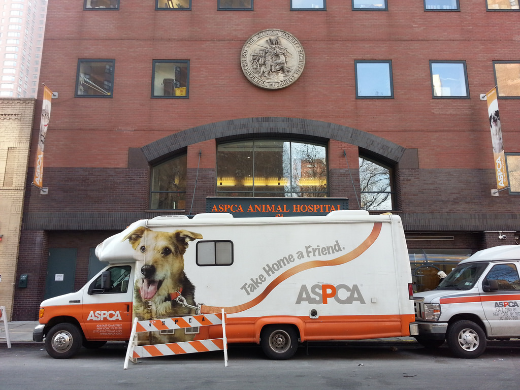 ASPCA Adoptions Center with a mobile adoptions truck in front. The ASPCA has several facilities in the New York City area; their upper east side building houses their animal hospital and adoptions departments, while their headquarters are located in a separate location in midtown.